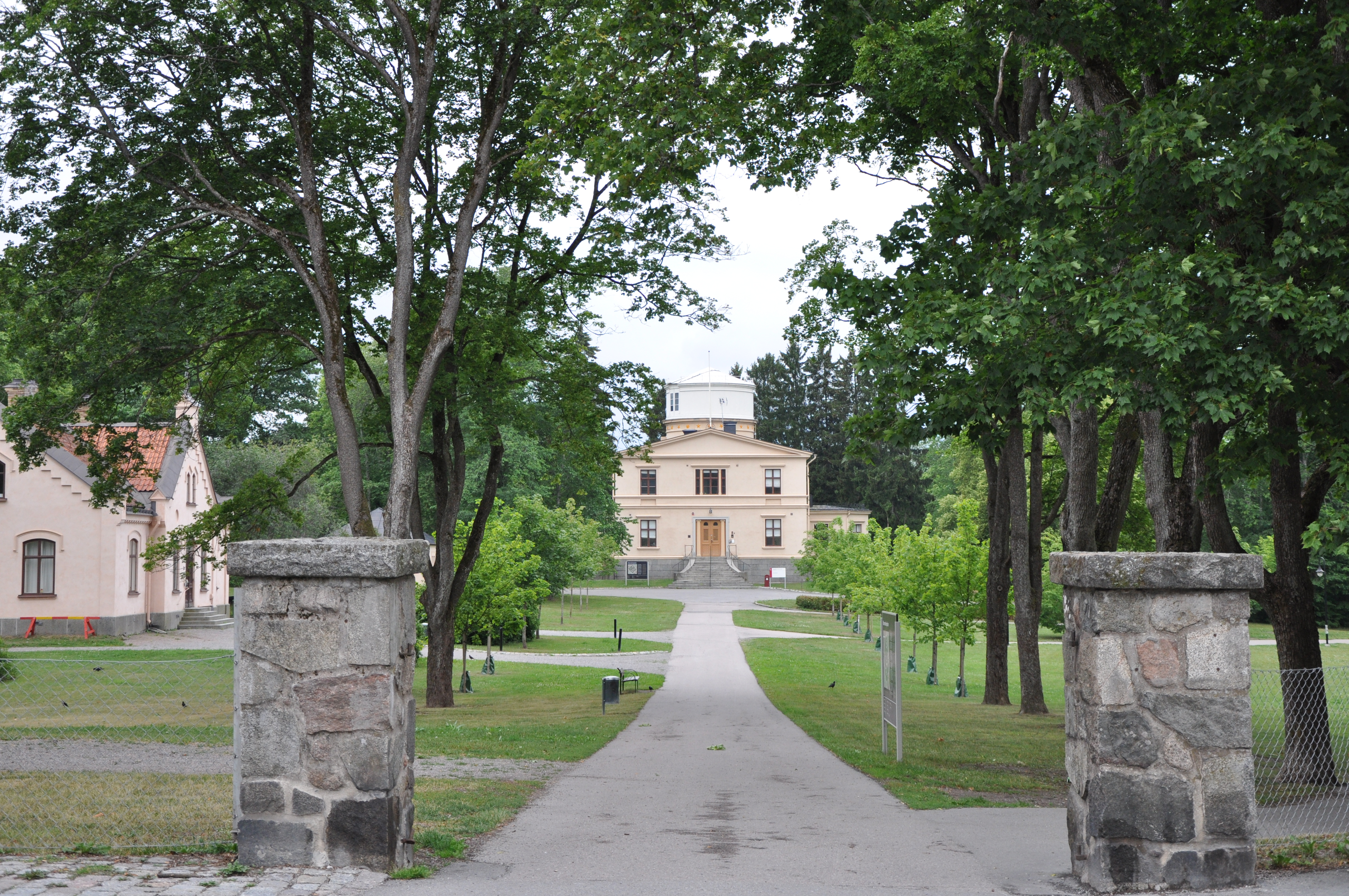 The entrance of Observatorieparken in Uppsala, Sweden, with Uppsala University Old Observatory visible.